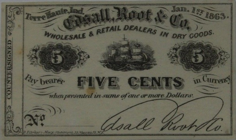 Shinplaster from an Indiana merchant